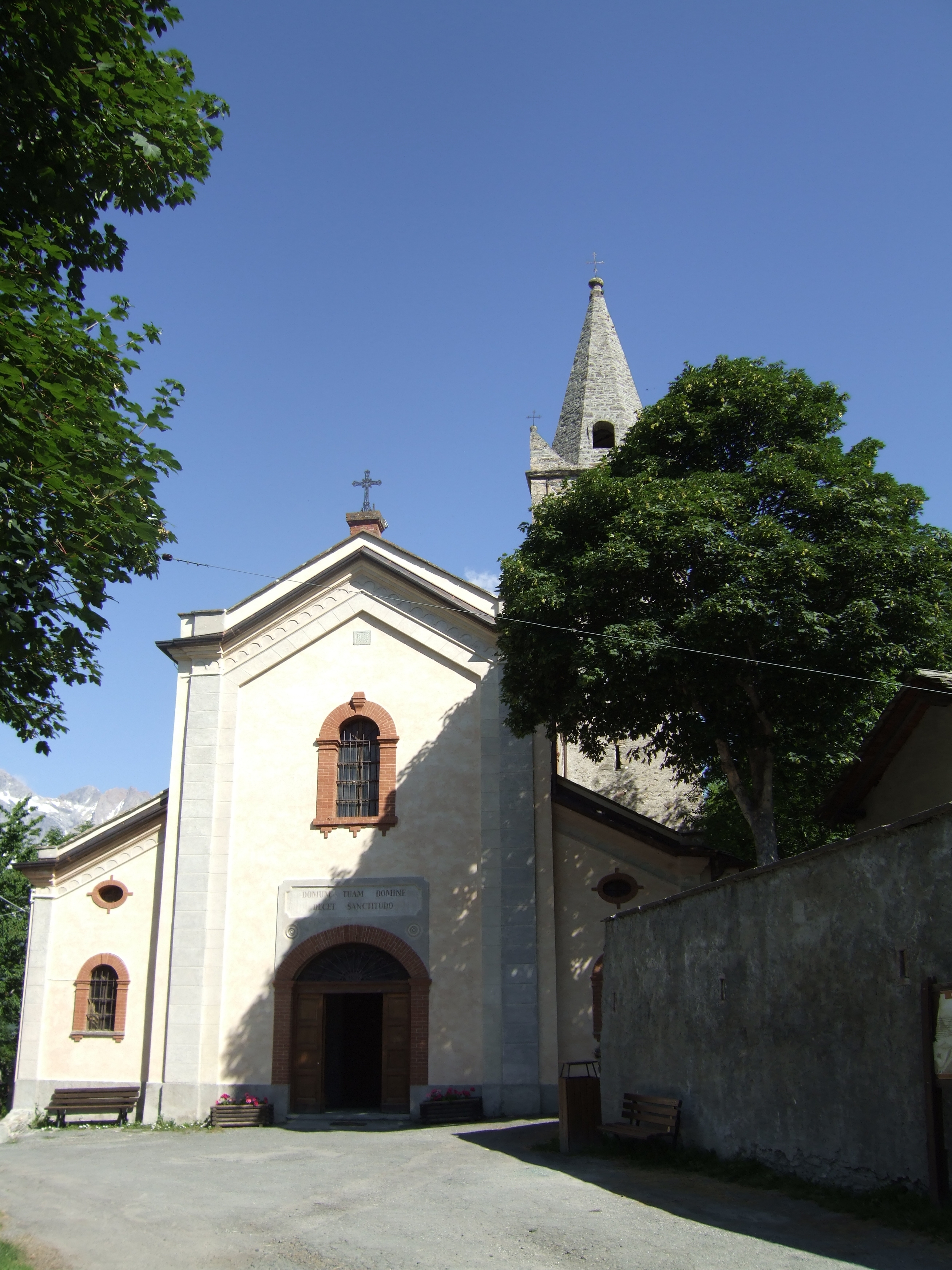 Parish church of St. Andrew in Millaures (Bardonecchia)